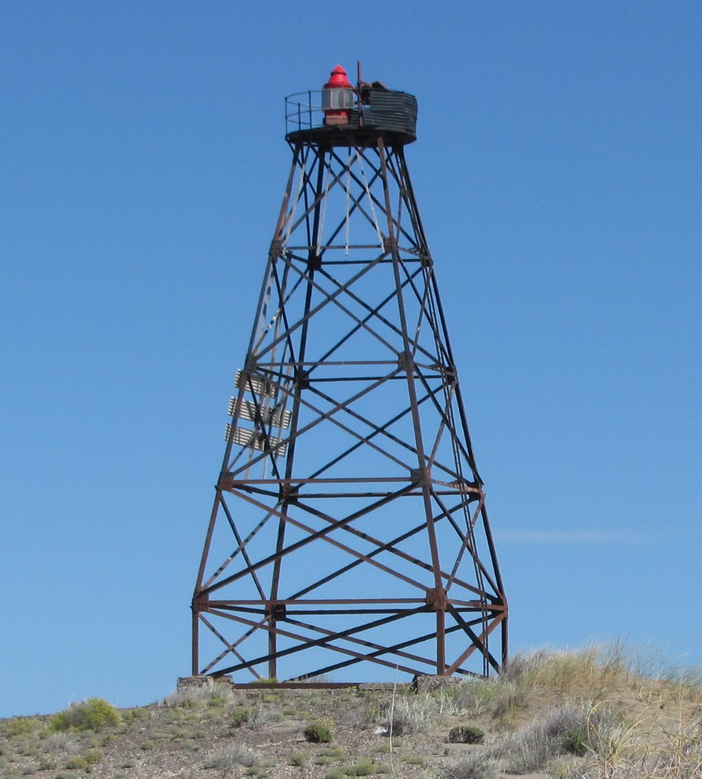 View of San Matias Lighthouse in Rio Negro Province, Argentina Patagonia